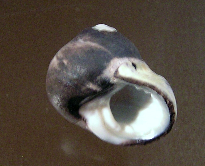 Austrocochlea rudis Gray, 1826, a top snail from the family Trochidae